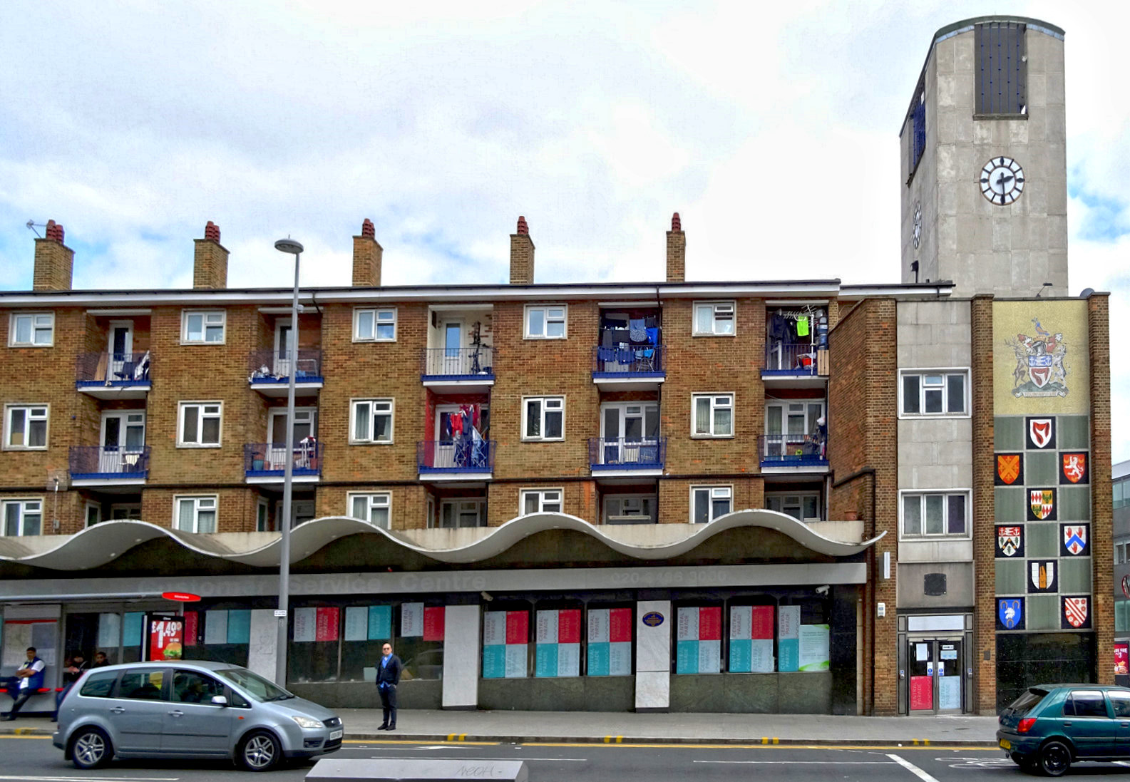 In Remembrance On this site on the 16th August 1944 a V1 flying bomb fell resulting in 22 deaths and 144 recorded casualties